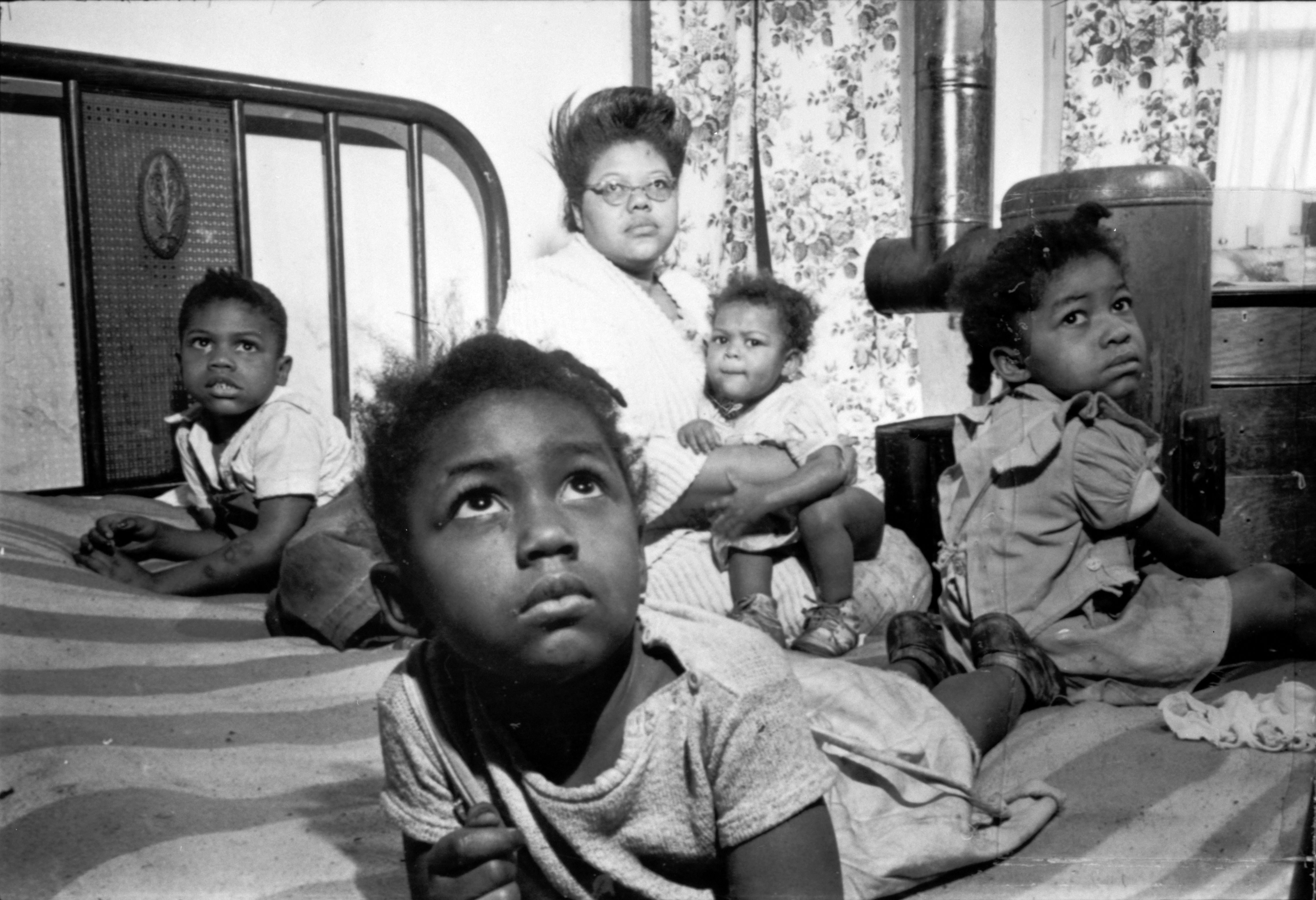 An African American woman and several children sitting on a bed in an apartment